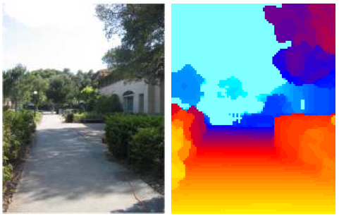 Deepth map